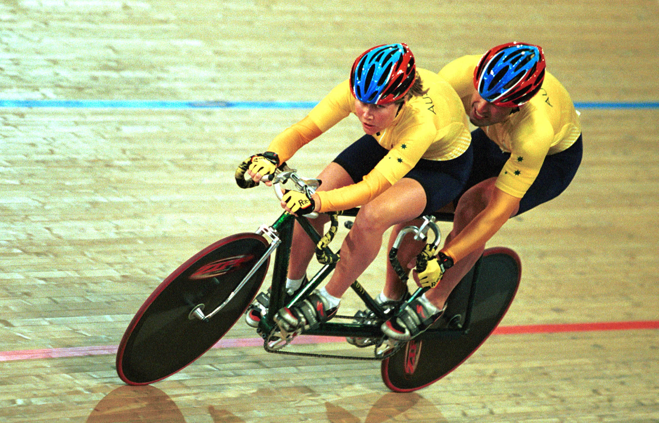 Action shot of Australian track cyclists Kerry Modra (pilot) and Kieran Modra (husband and wife team) racing during the 1km Time Trial at the 2000 Sydney Paralympic Games